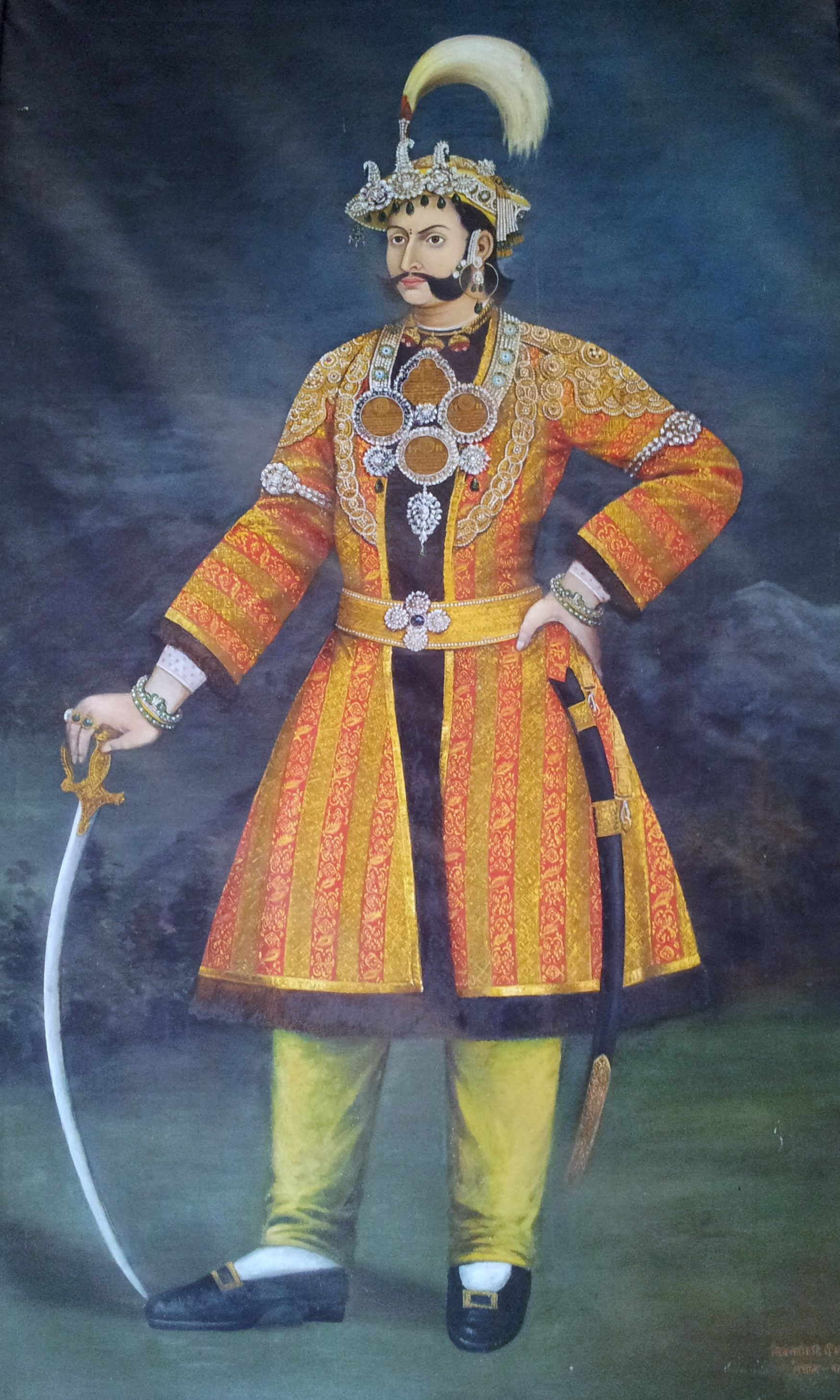 Portrait of Muktiyar Mathabar Singh Thapa in National Museum of Nepal, Chauni